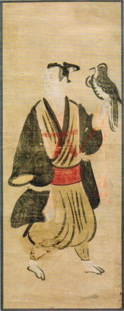 Otsu-e of falconer, c. 1700, ink and color on paper, 62.4 x 24.1 cm, Minneapolis Institute of Art